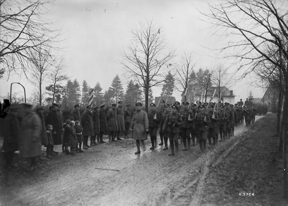 3rd Canadian Infantry Battalion passing the Border into German territory, 4th December, 1918, on way to Rhine.